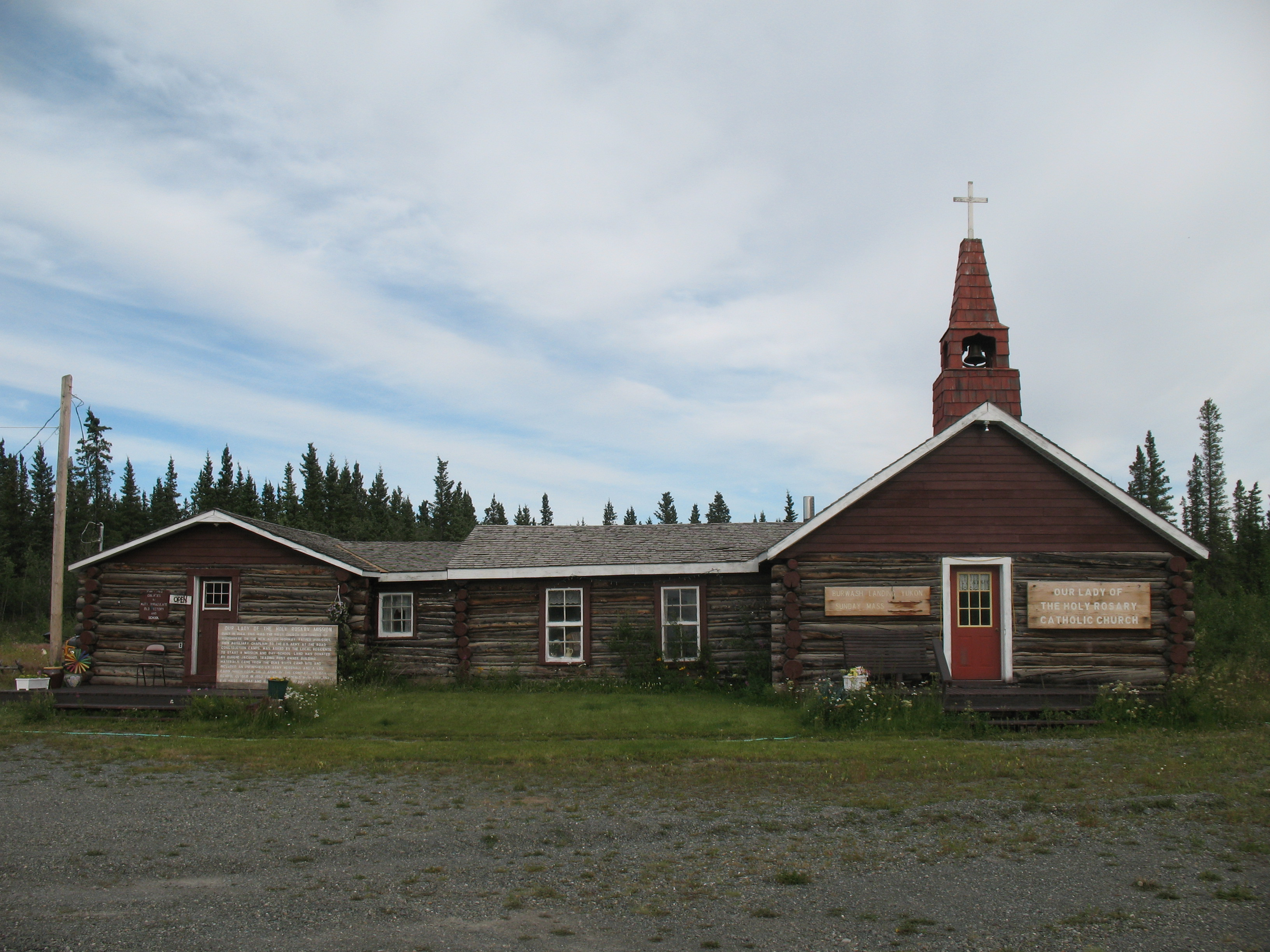 Church in Burwash Landing, Yukon